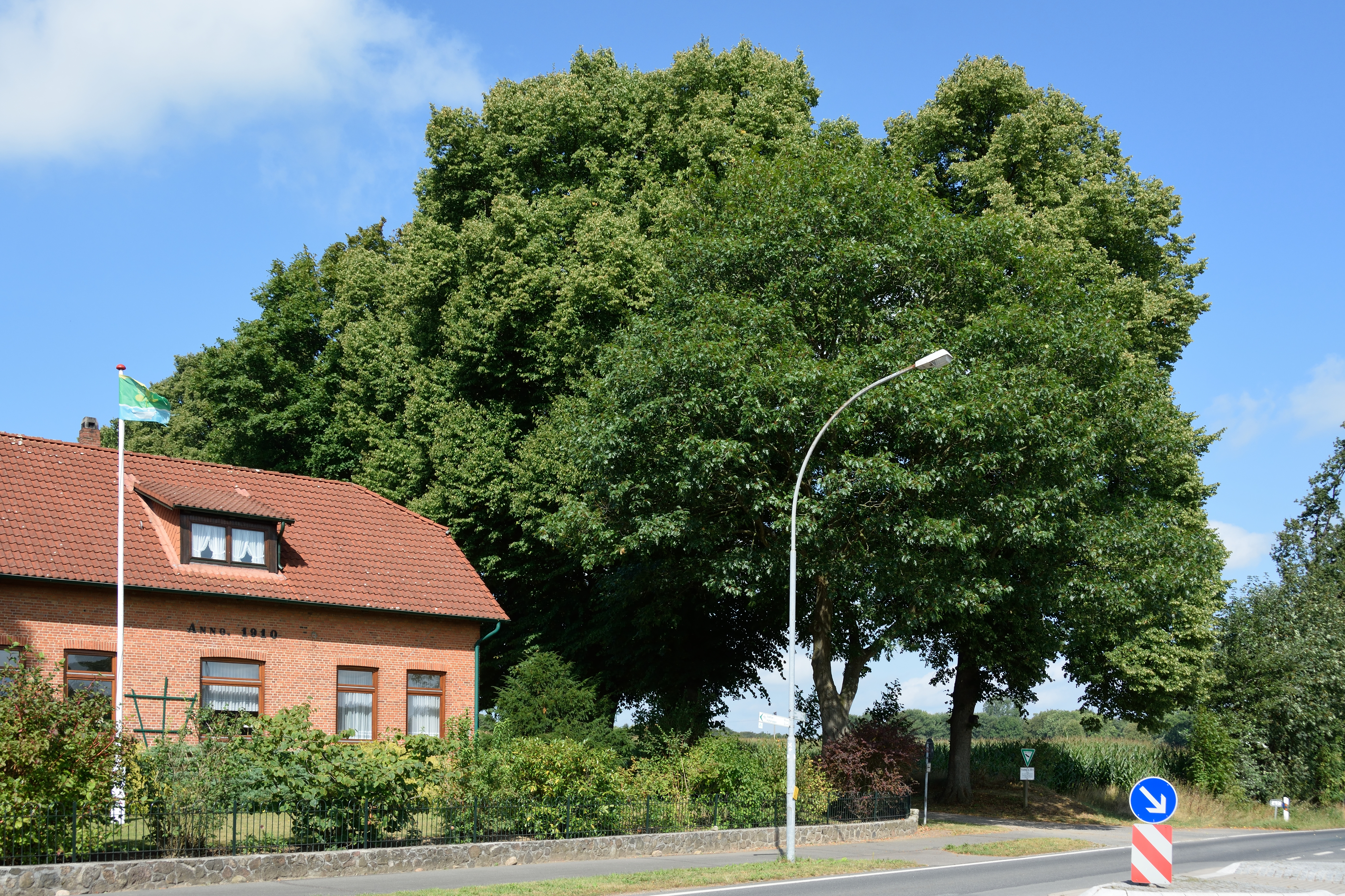 Natural monument (No. 12) in the Steinburg district in Drage.